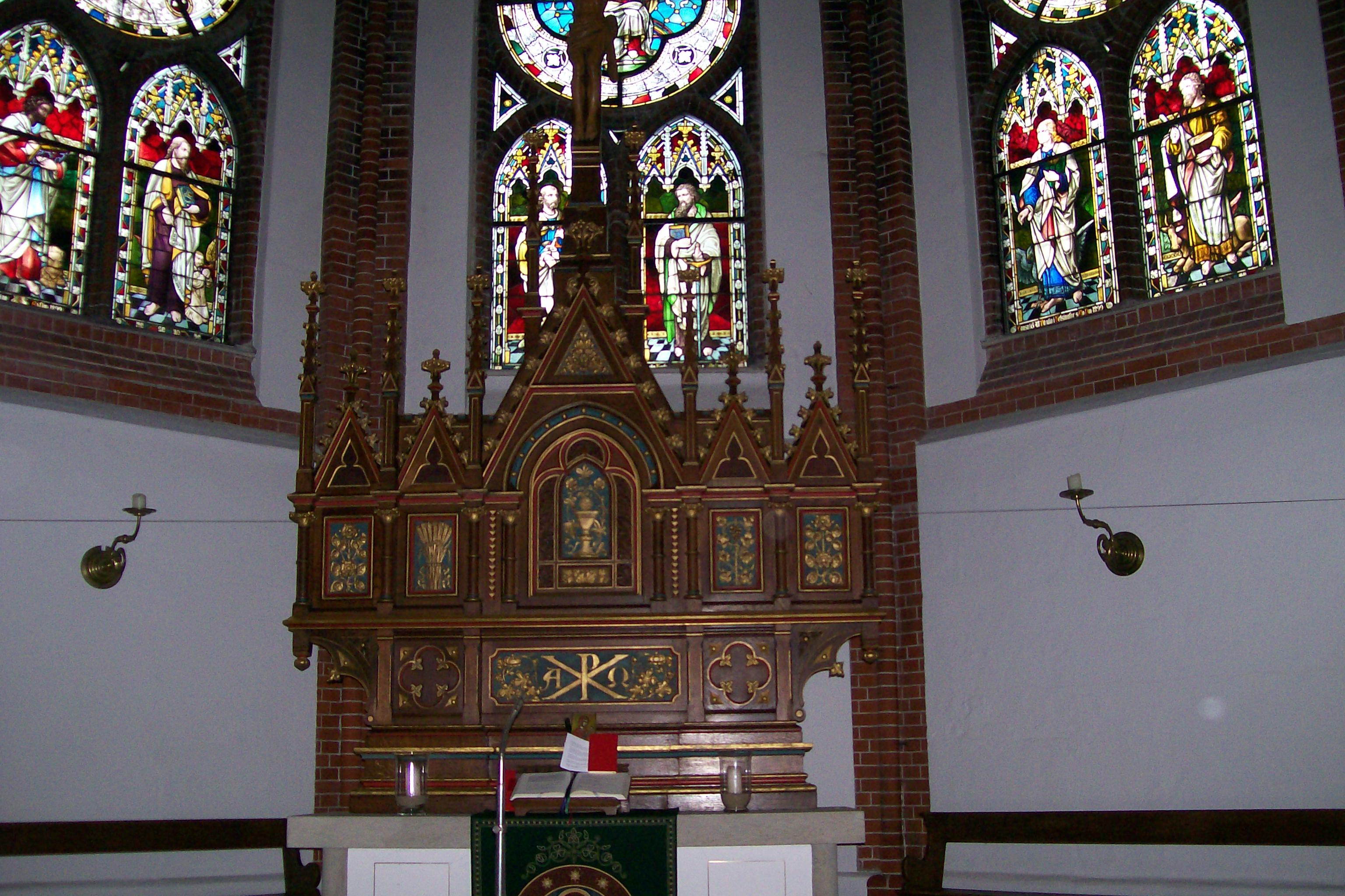 High altar in St. Lorenz, Lübeck Church in Lübeck, Schleswig-Holstein, made by Firma Gustav Kuntzsch, Wernigerode.